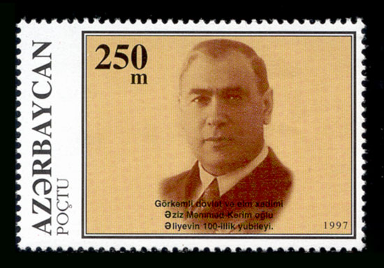 Stamp of Azerbaijan